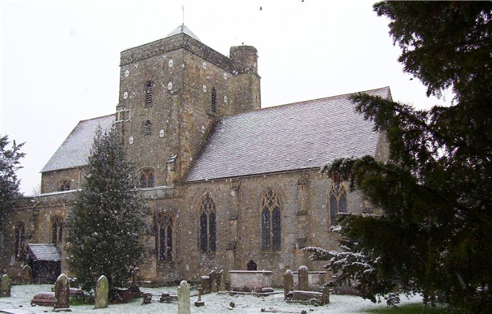 Parish church of the Assumption of the Blesséd Virgin Mary and St Nicholas, Etchingham, East Sussex, seen from the southeast in snow